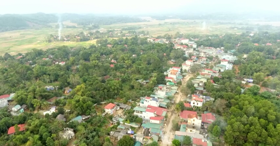 Xã Tân Lợi, Đồng Hỷ